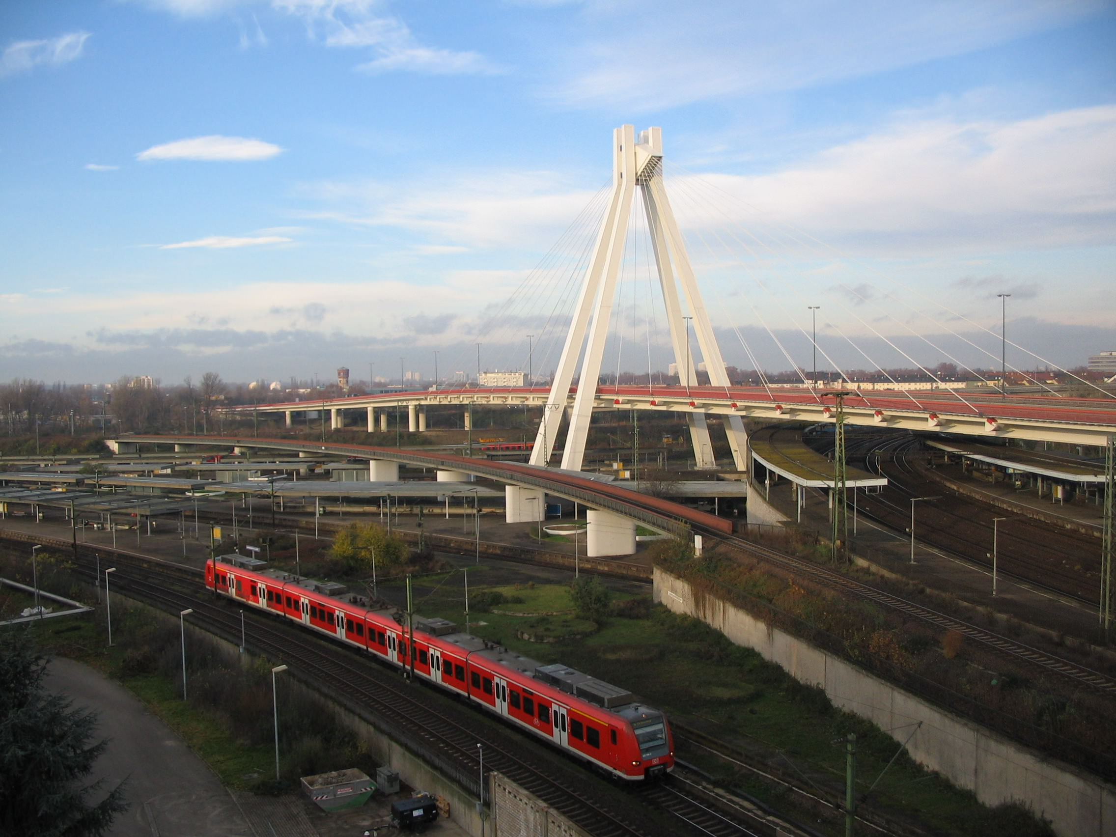 Ludwigshafen (Rhine) Main Train Station